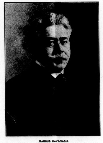 Judge Marcus Kavanagh, her second husband.